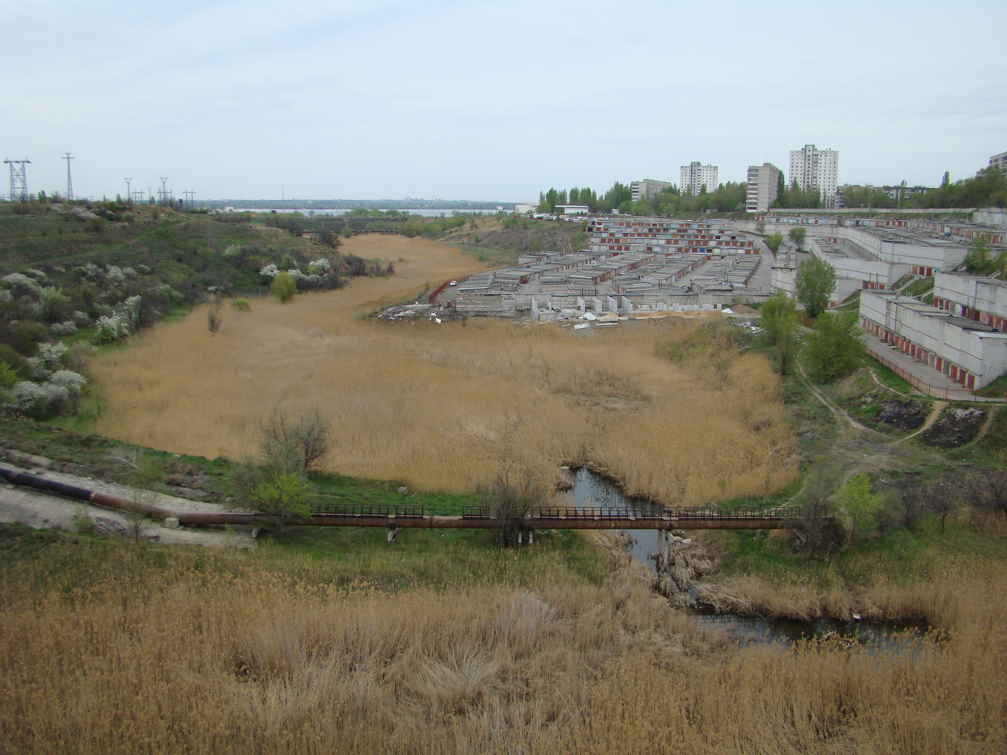 Sukhaya Mechetka valley in the north of Volgograd. Former archaeological site.